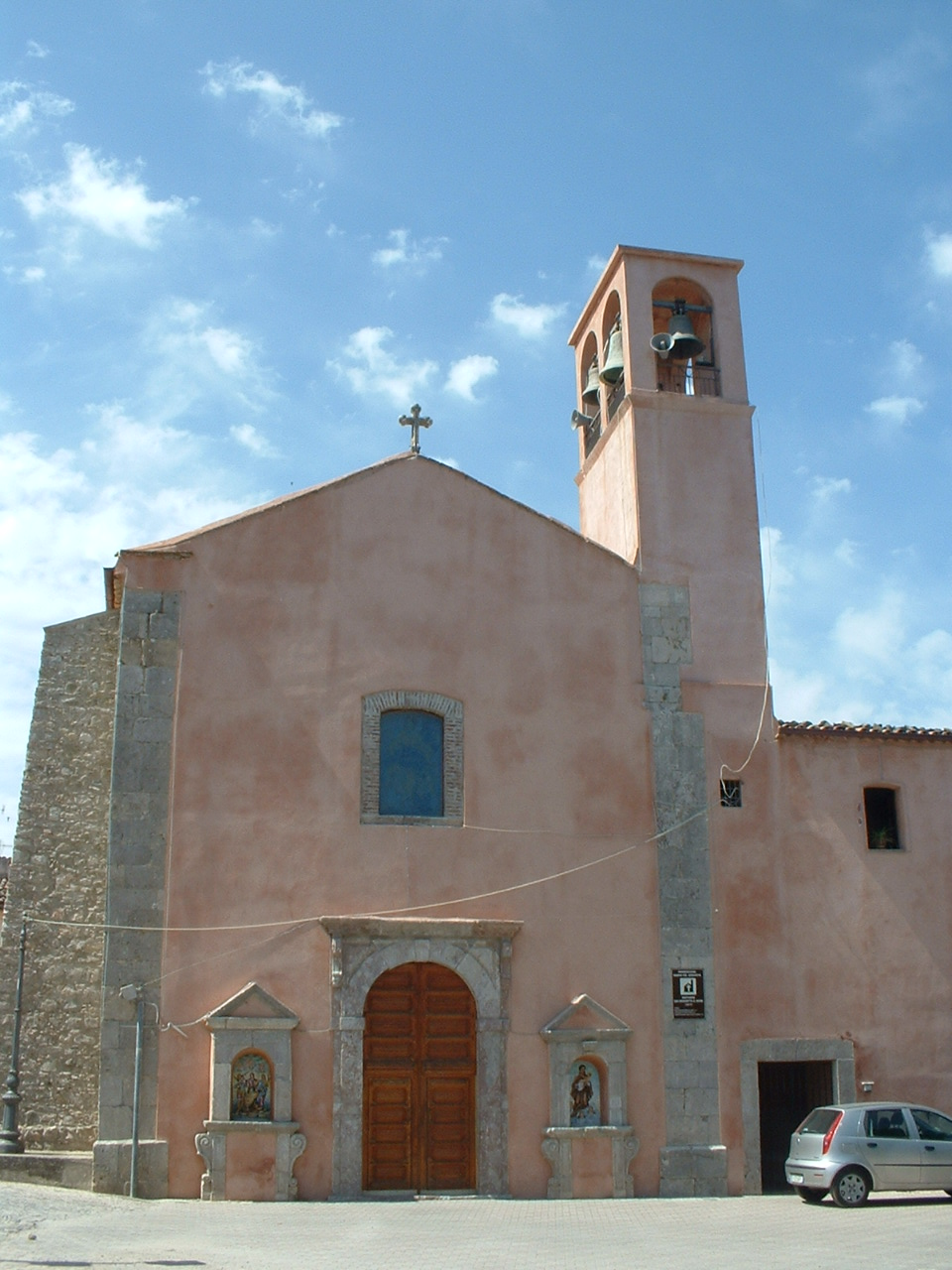 Facade of St. Benedetto il Moro sanctuary (1617), in San Fratello, Sicily